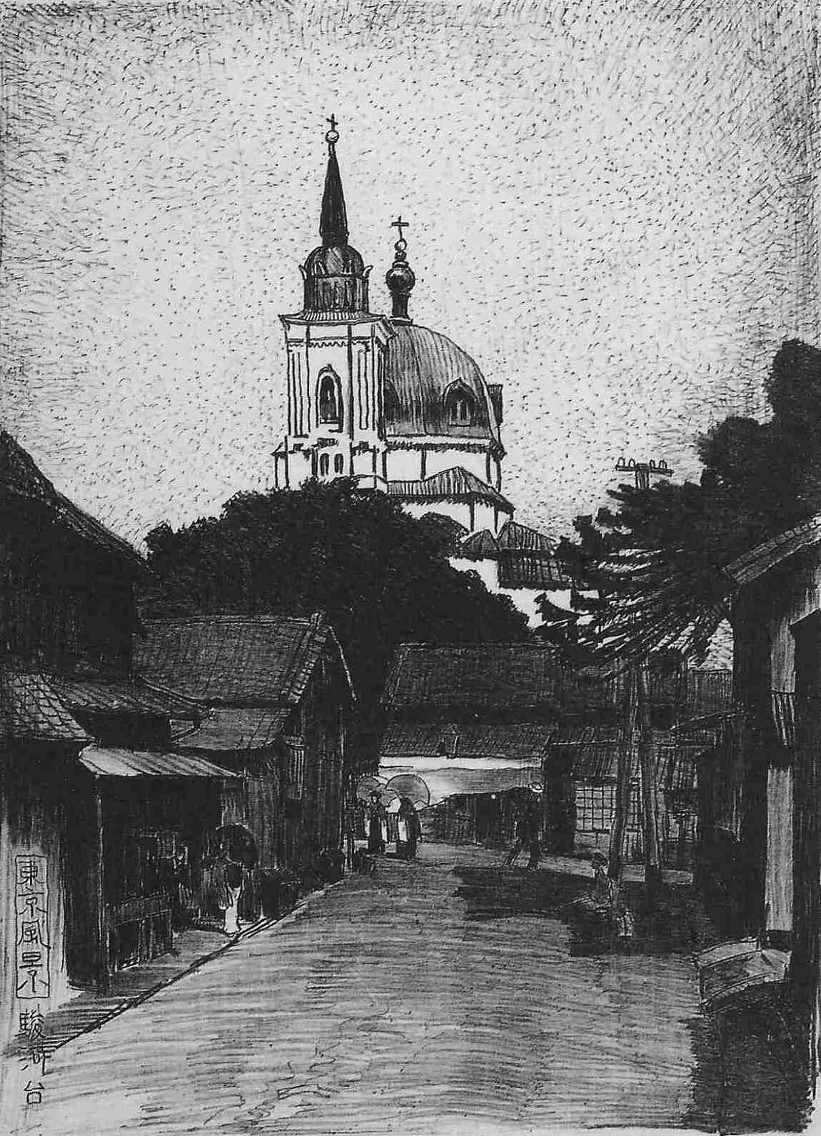 lithograph Surugadai (Tokyo) 1916